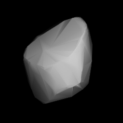 3D convex shape model of 1694 Kaiser, computed using light curve inversion techniques. J. Hanuš, J. Ďurech, M. Brož, B. D. Warner (June 2011). "A study of asteroid pole-latitude distribution based on an extended set of shape models derived by the lightcurve inversion method". Astronomy and Astrophysics 530: A134. ISSN 0004-6361. arXiv